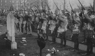 Royal Scots Territorials firing a salute over the grave of Captain Erdmann, Commander of the SMS Bluecher sunk at the Battle of Dogger Bank